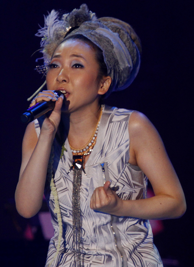 MISIA performing at the Centennial Cherry Blossom Festival opening ceremony at the Walter E. Washington Convention Center in Washington, D.C., USA on March 25, 2012.